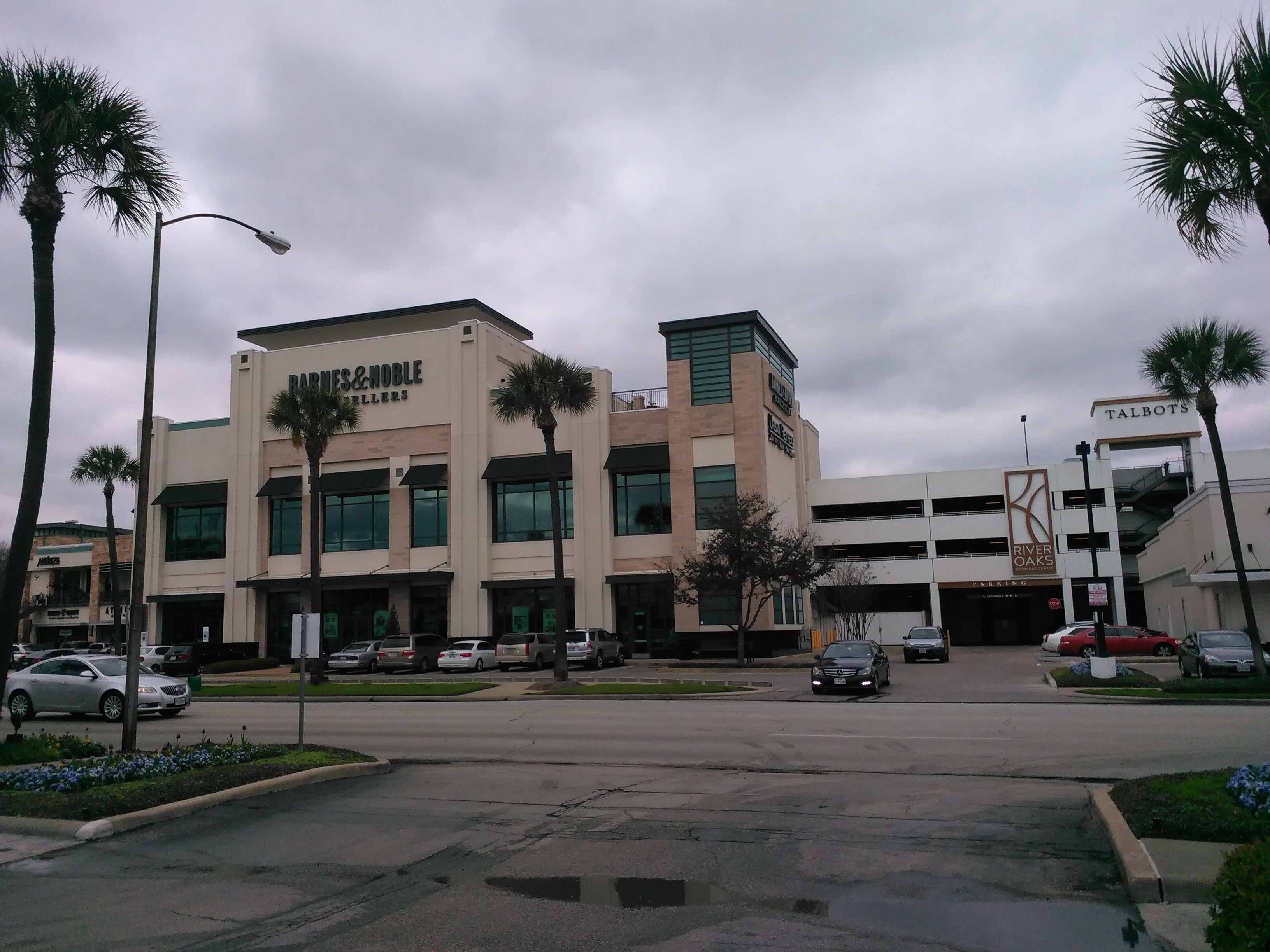 Barnes & Noble at the River Oaks Shopping Center